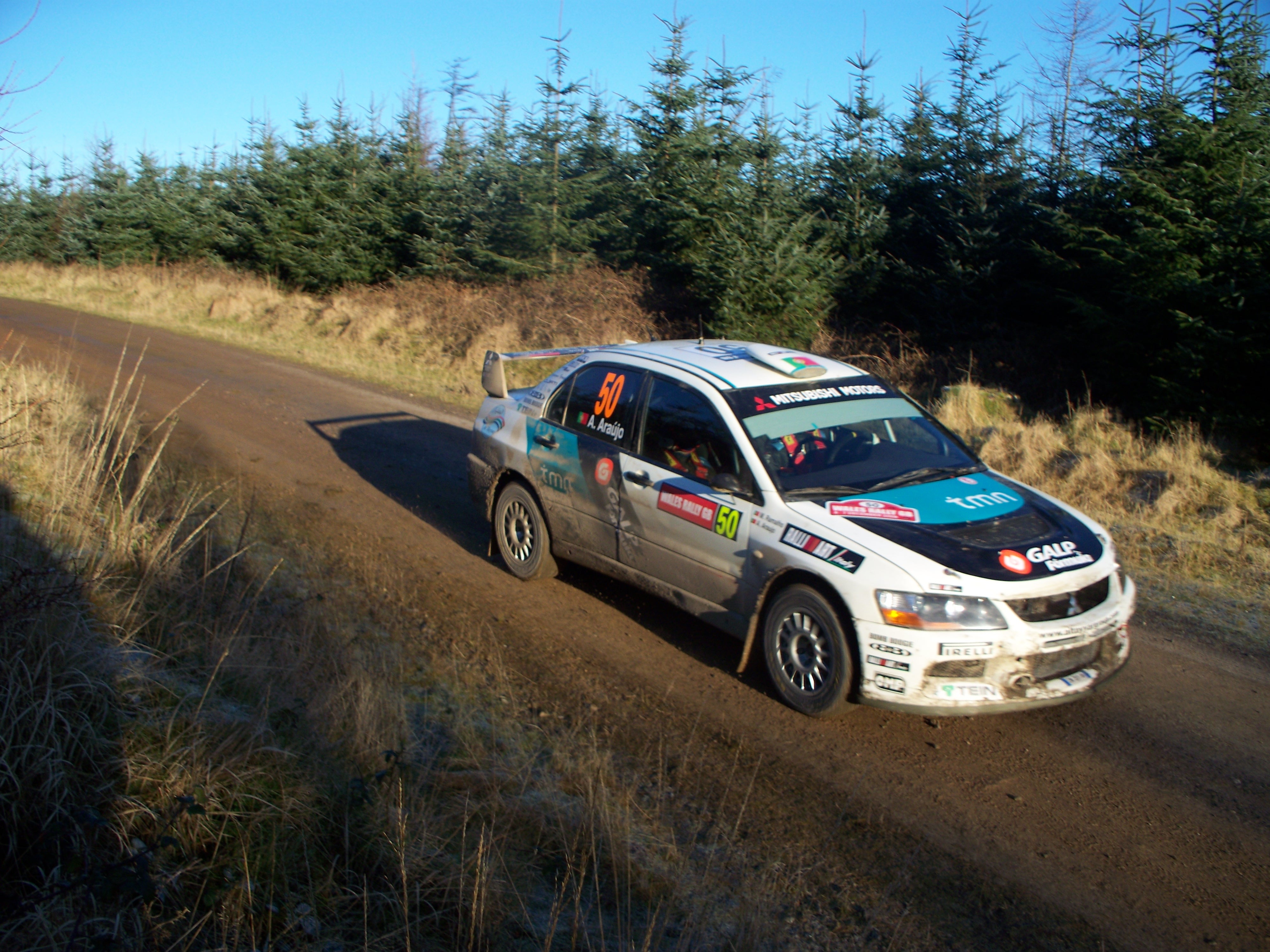 View of Rally car on mountain in bryn.